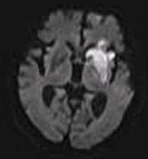 Different sequences of MRI taken in a case 4 hours after cerebral infarction: T2 weighted, which failed to diagnose the infarcted region. Diffusion weighted image (DWI), with clear infarcted region in basal ganglia. ADC image, showing lower ADC value in infarcted region.